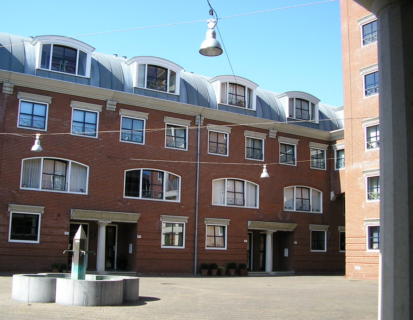 Charles Voscour Maastricht, the Netherlands